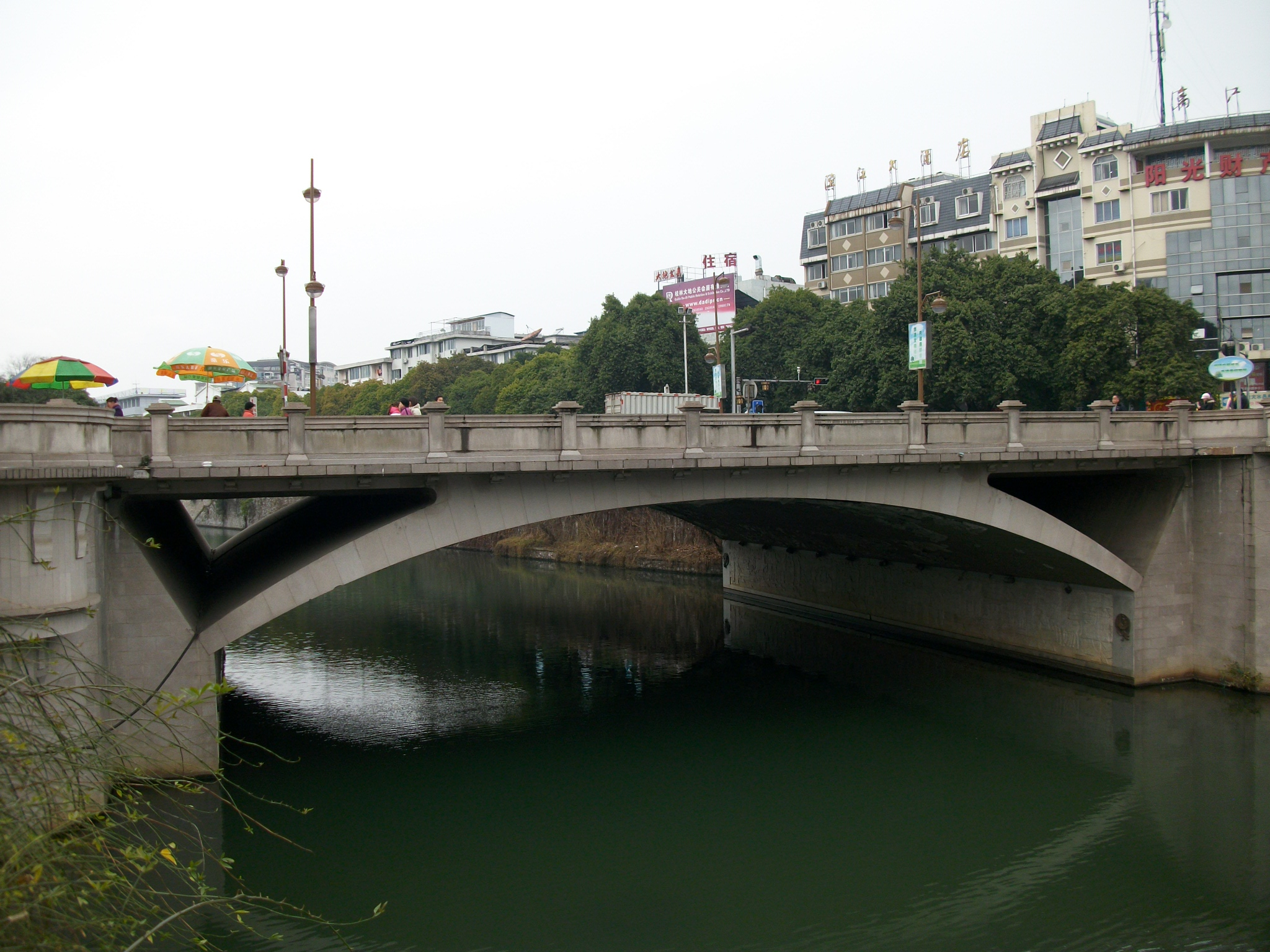 Wenchang Bridge, Guilin.